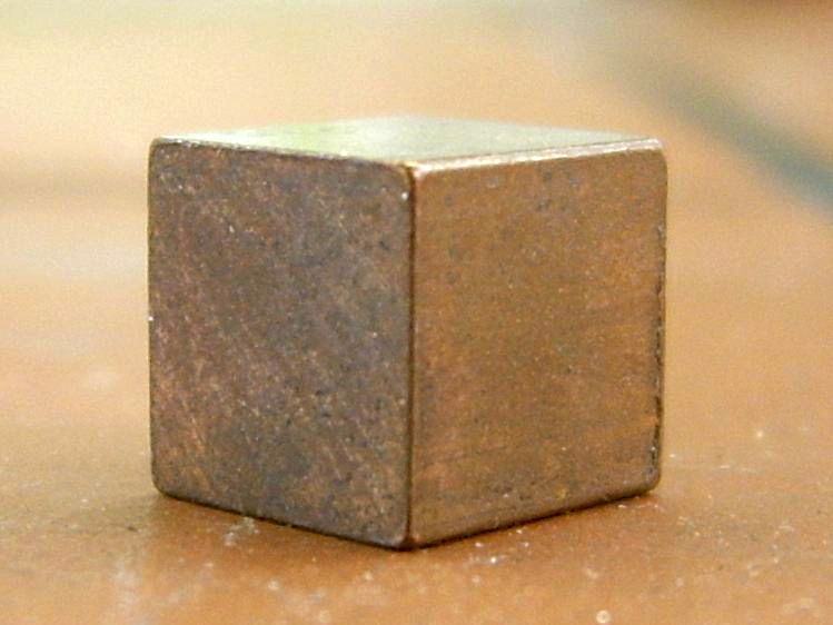 A metal cube of Brass